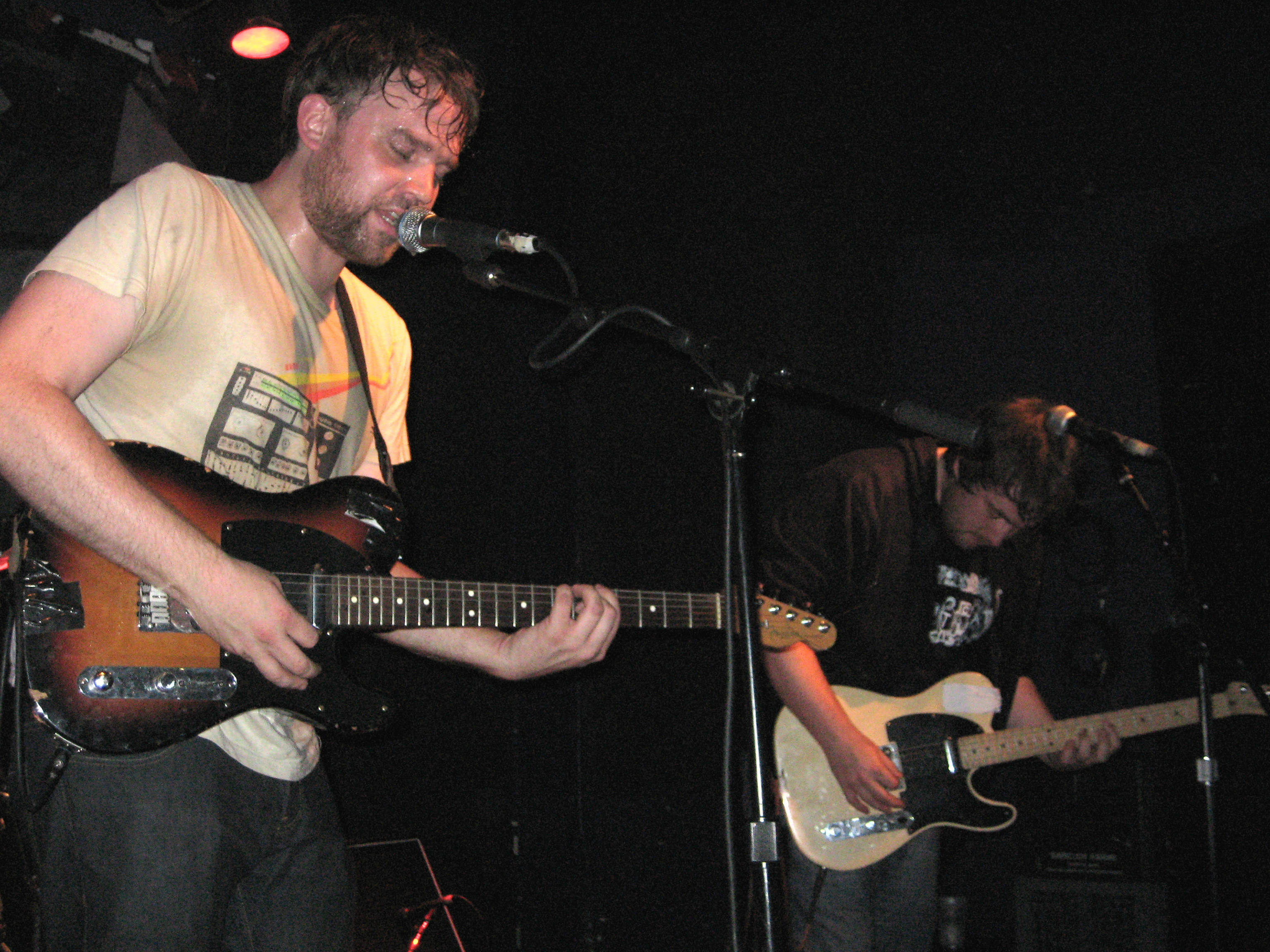 Frightened Rabbit, Cambridge, Mass, July 2008